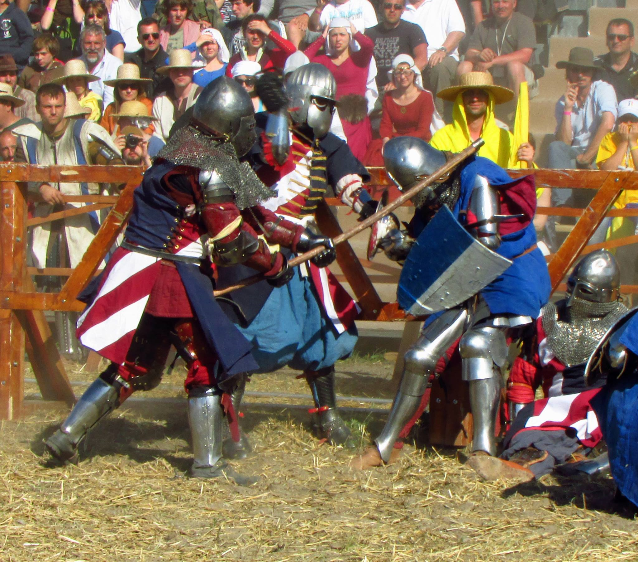 USA Knight and 2014 MVP Simon Rohrich